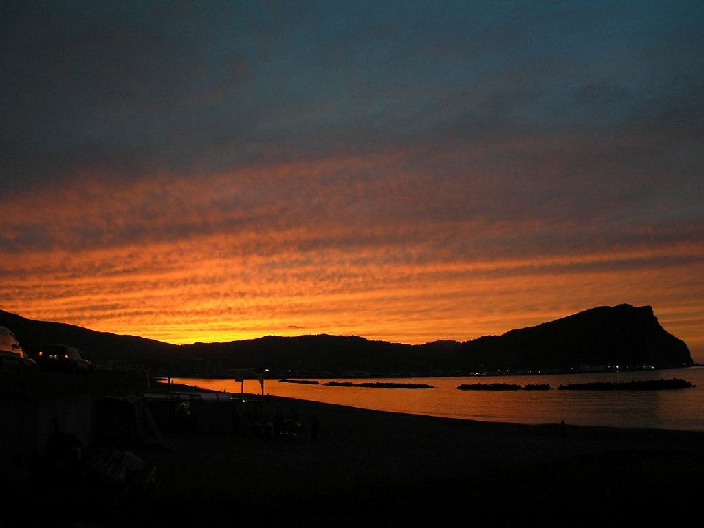 siripa-misaki シリパ岬余市町浜中町89-1より